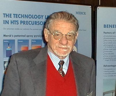 The Nobleprice Winner Karl Alexander Mueller, on February 15th 2001 in Darmstadt (Germany)